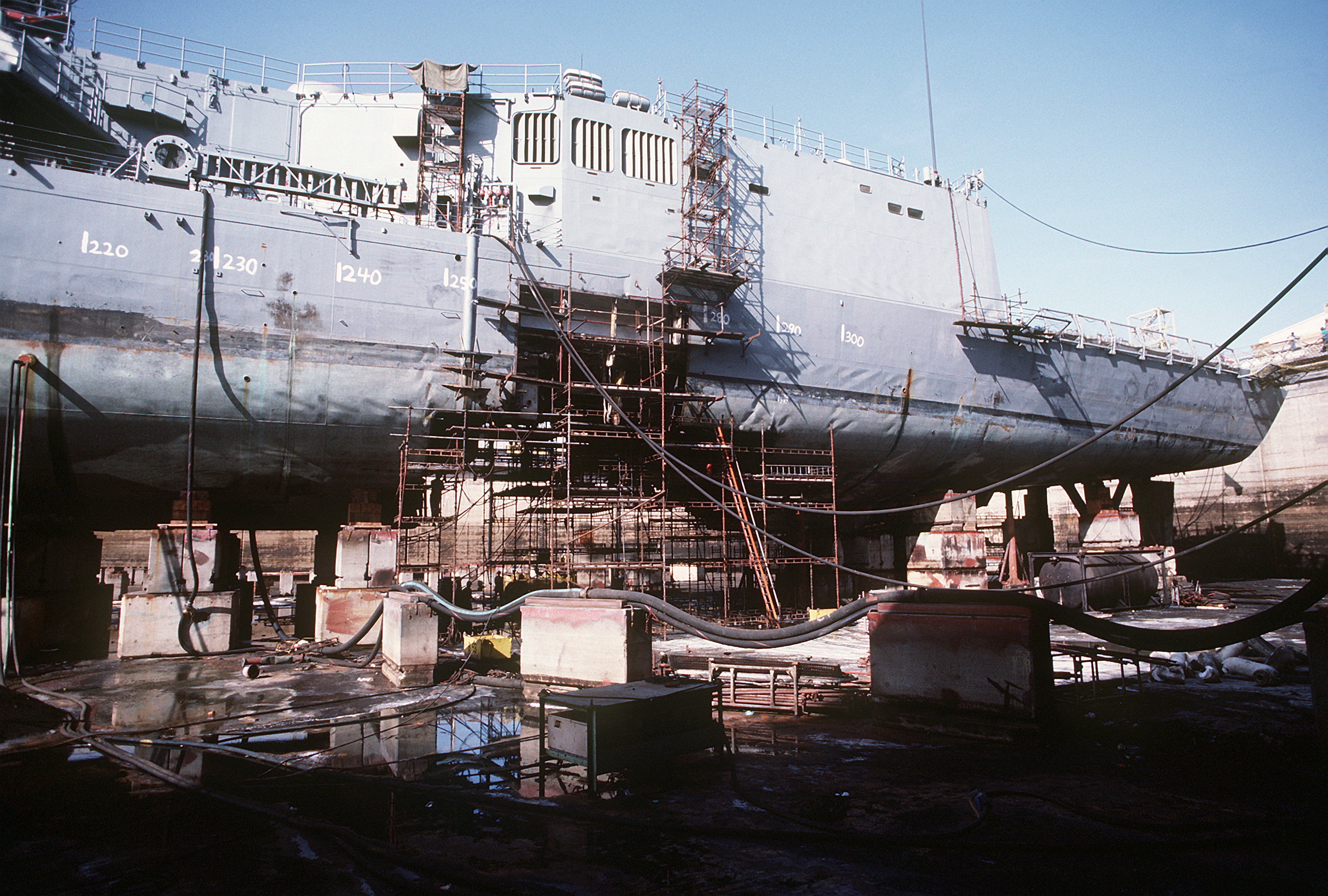 A port view of the guided missile frigate USS SAMUEL B. ROBERTS (FFG-58) in dry dock in Dubai, UAE, for temporary repairs. The frigate was damaged when it struck an Iranian naval mine while on patrol in the Persian Gulf.